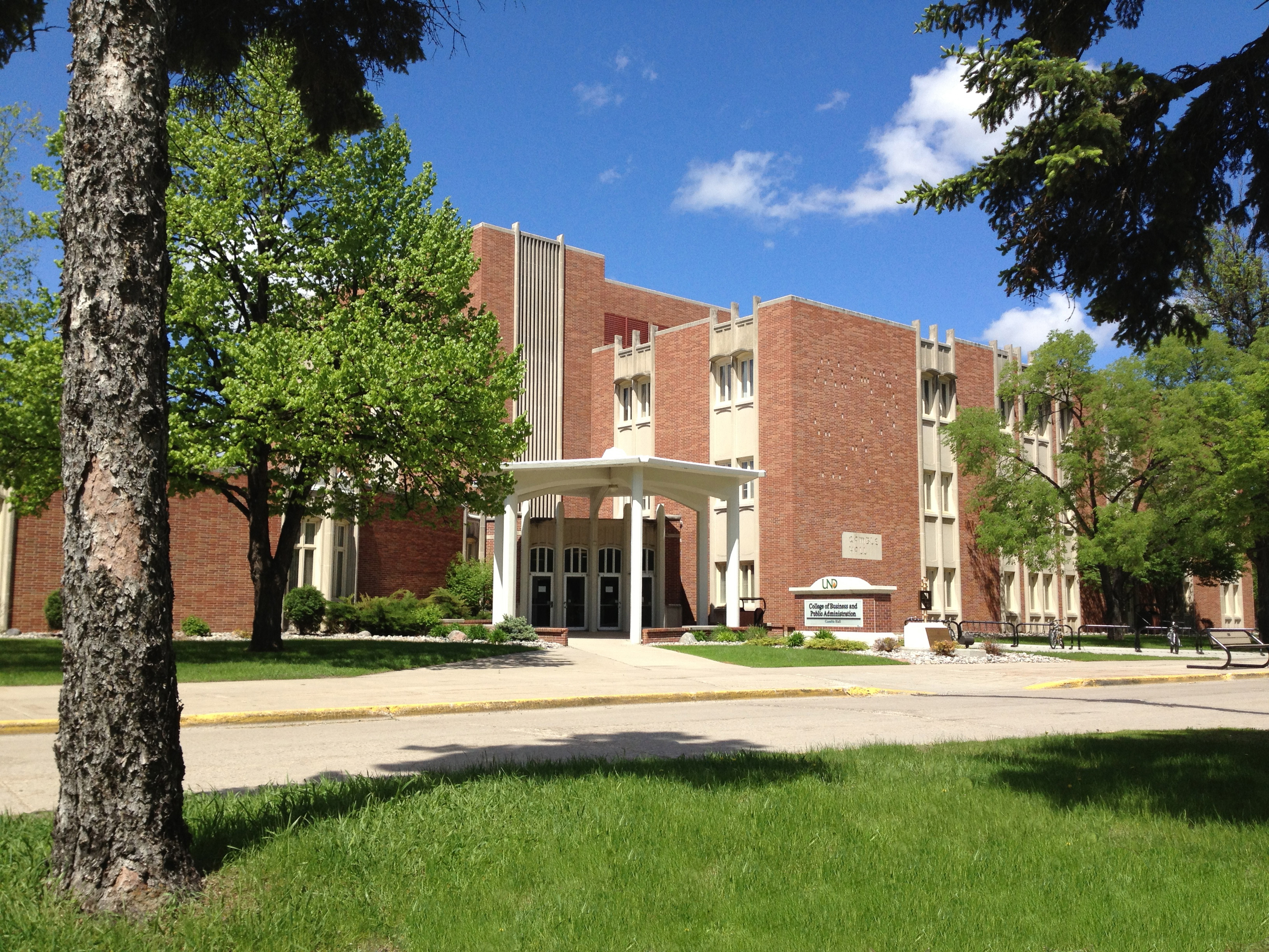 UND Gamble Hall